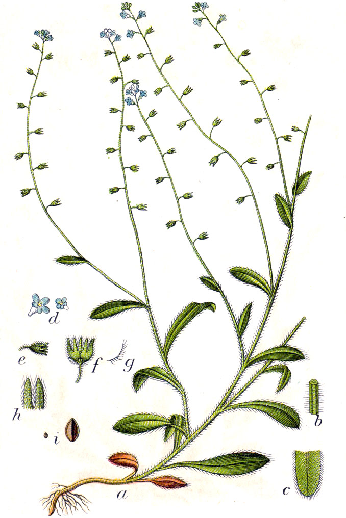 Myosotis ramosissima subsp. ramosissima, syn. Myosotis hispida Schltdl. Original Caption Borstiges Vergissmeinnicht, Myosotis hispida